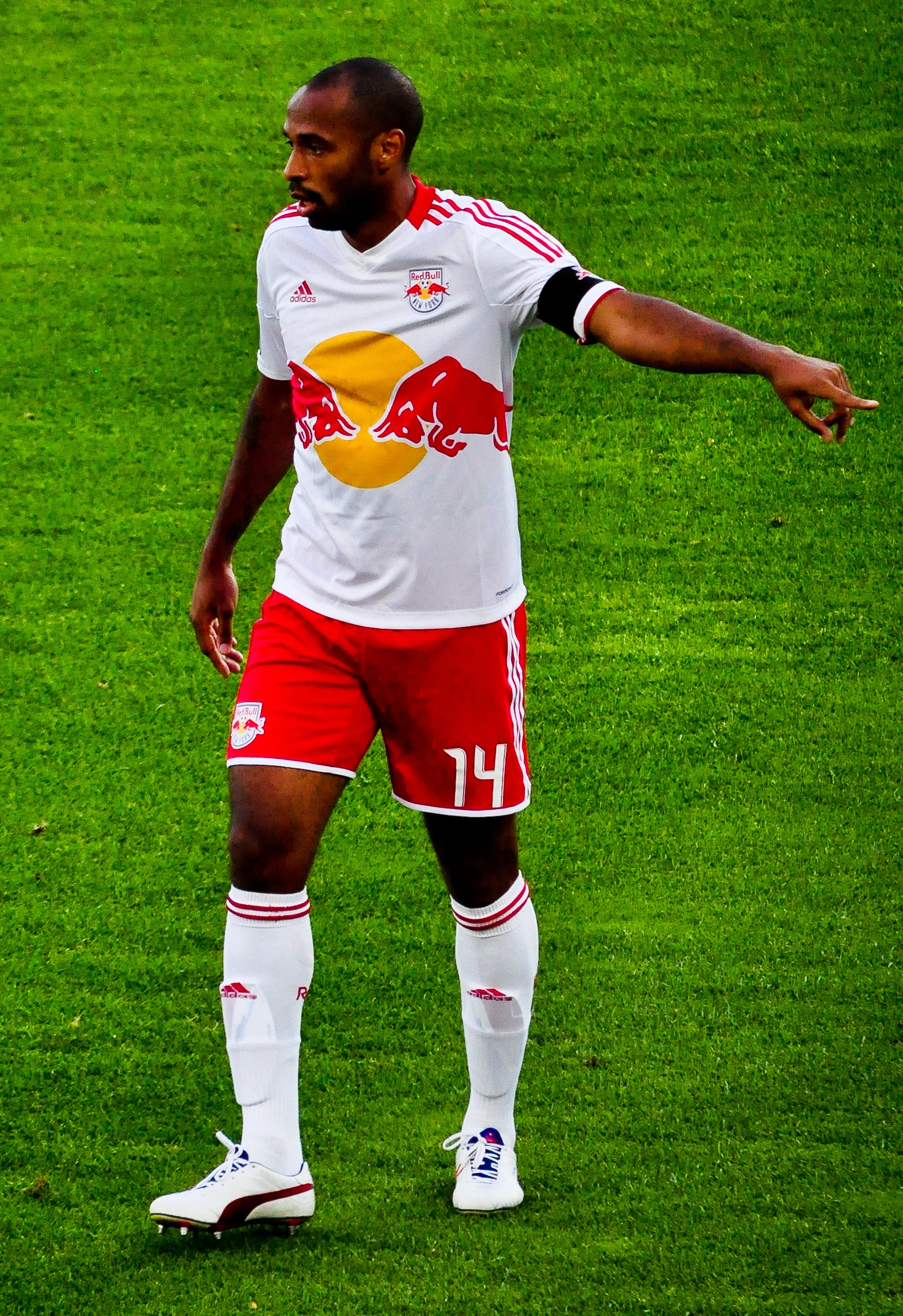 Thierry Henry of the New York Red Bulls.